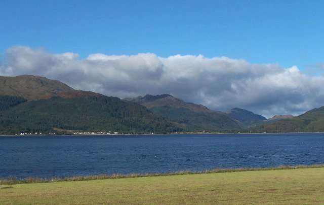 Looking across Loch Long to Ardentinny, from Ardpeaton.